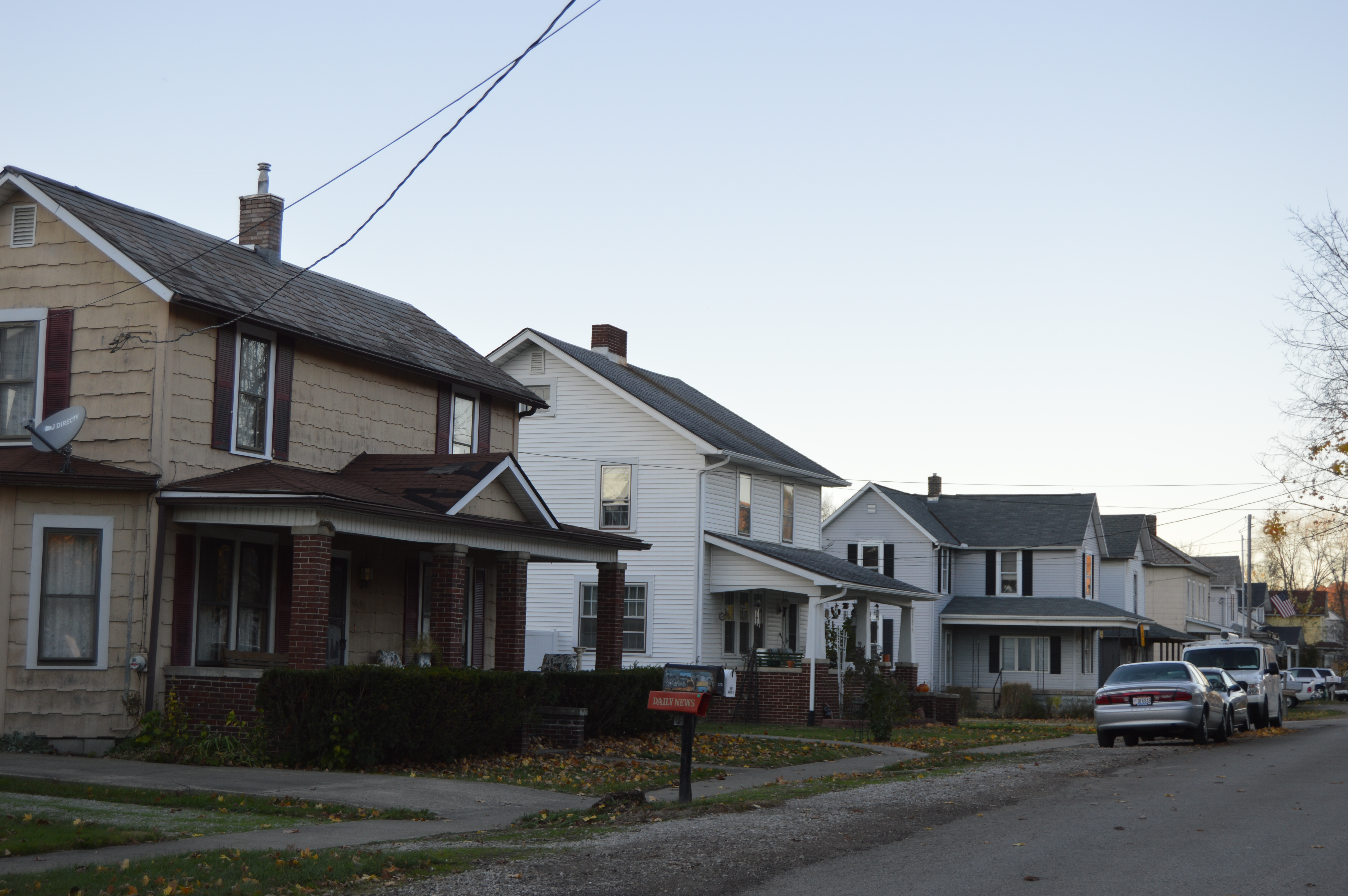 Houses on the western side of the southern end of Jackson Street in Rockbridge, Ohio, United States.